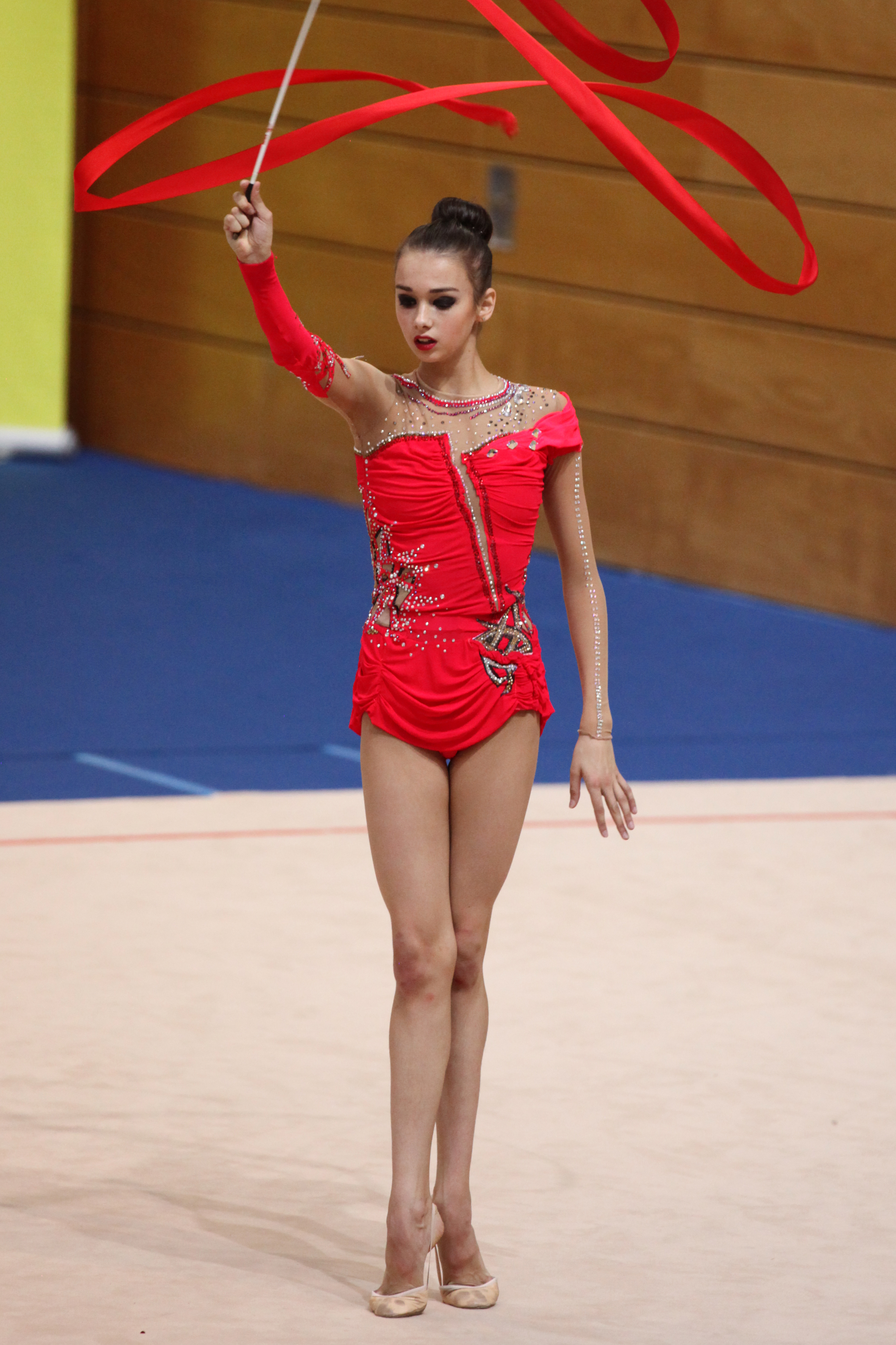 Eleonora Romanova (Элеонора Романова) at the rhythmic gymnastics Grand Prix final in Innsbruck